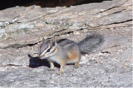 Cliff Chipmunk (Tamias dorsalis)